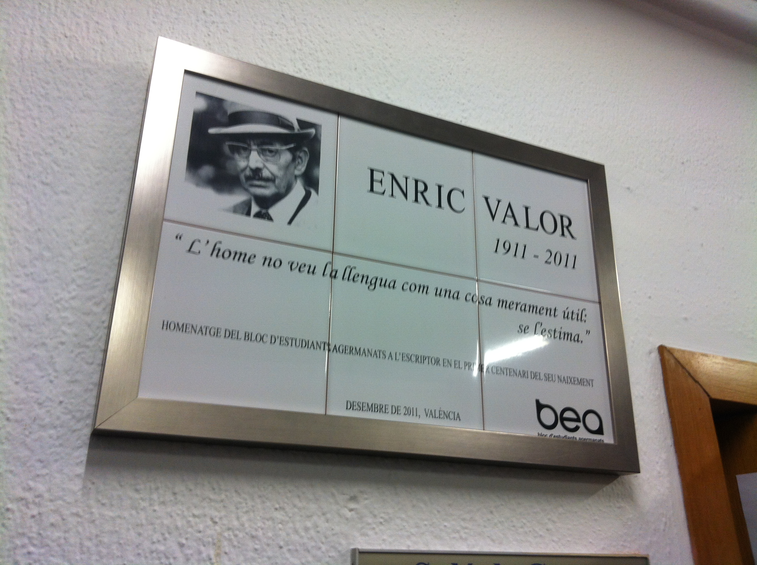 Enric Valor Plaque at Universitat de València